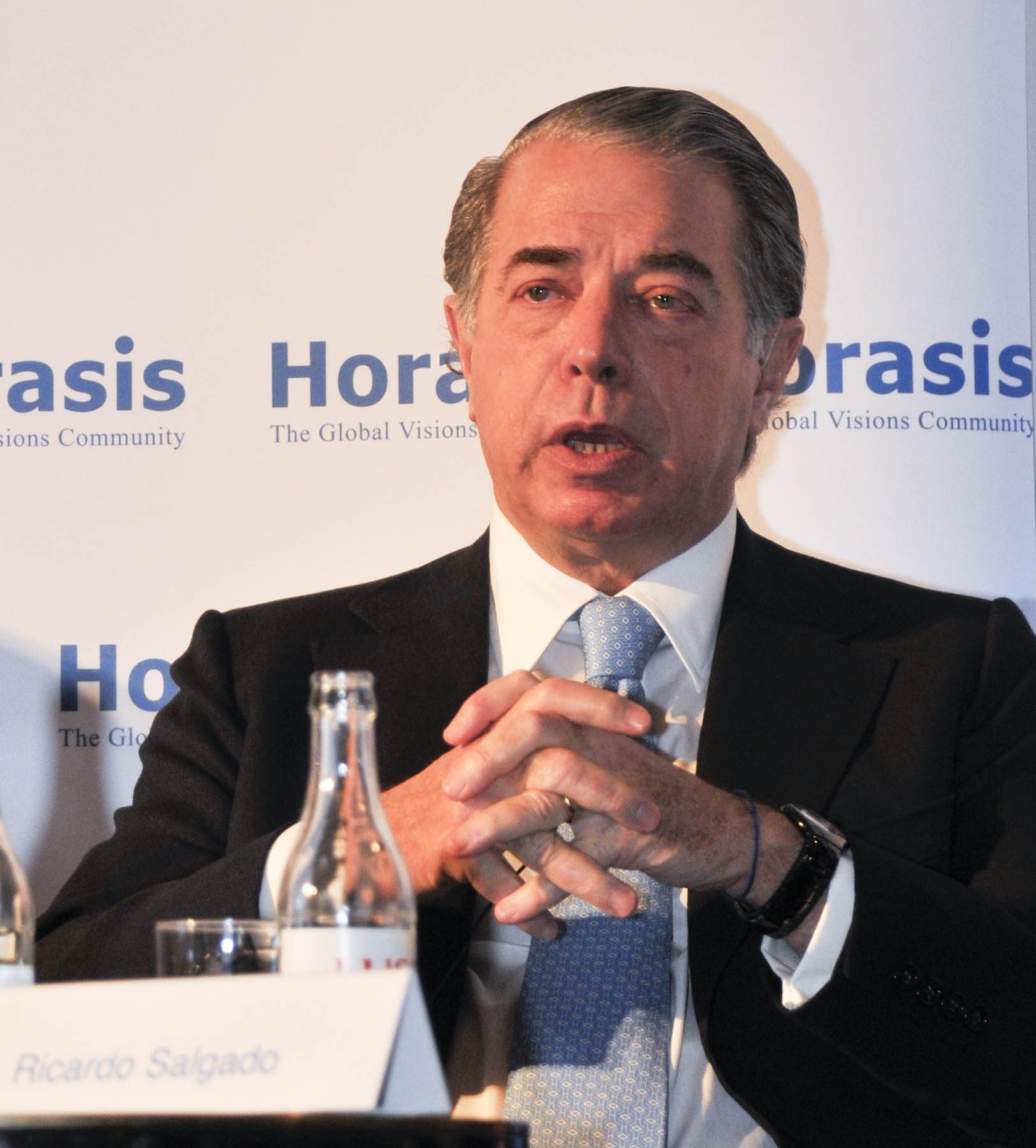 Horasis Global China Business Meeting 2009